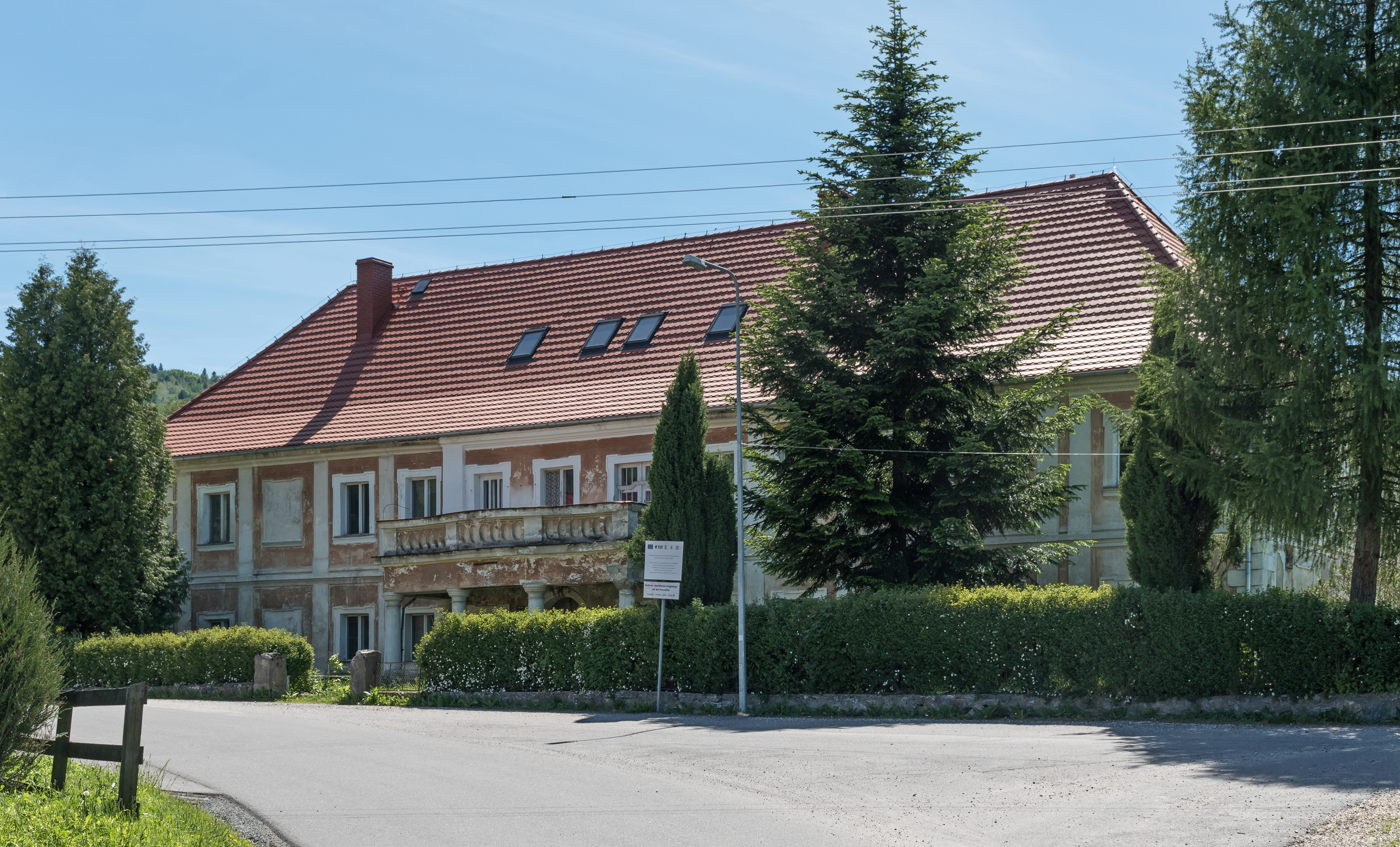 Manor in Konradów